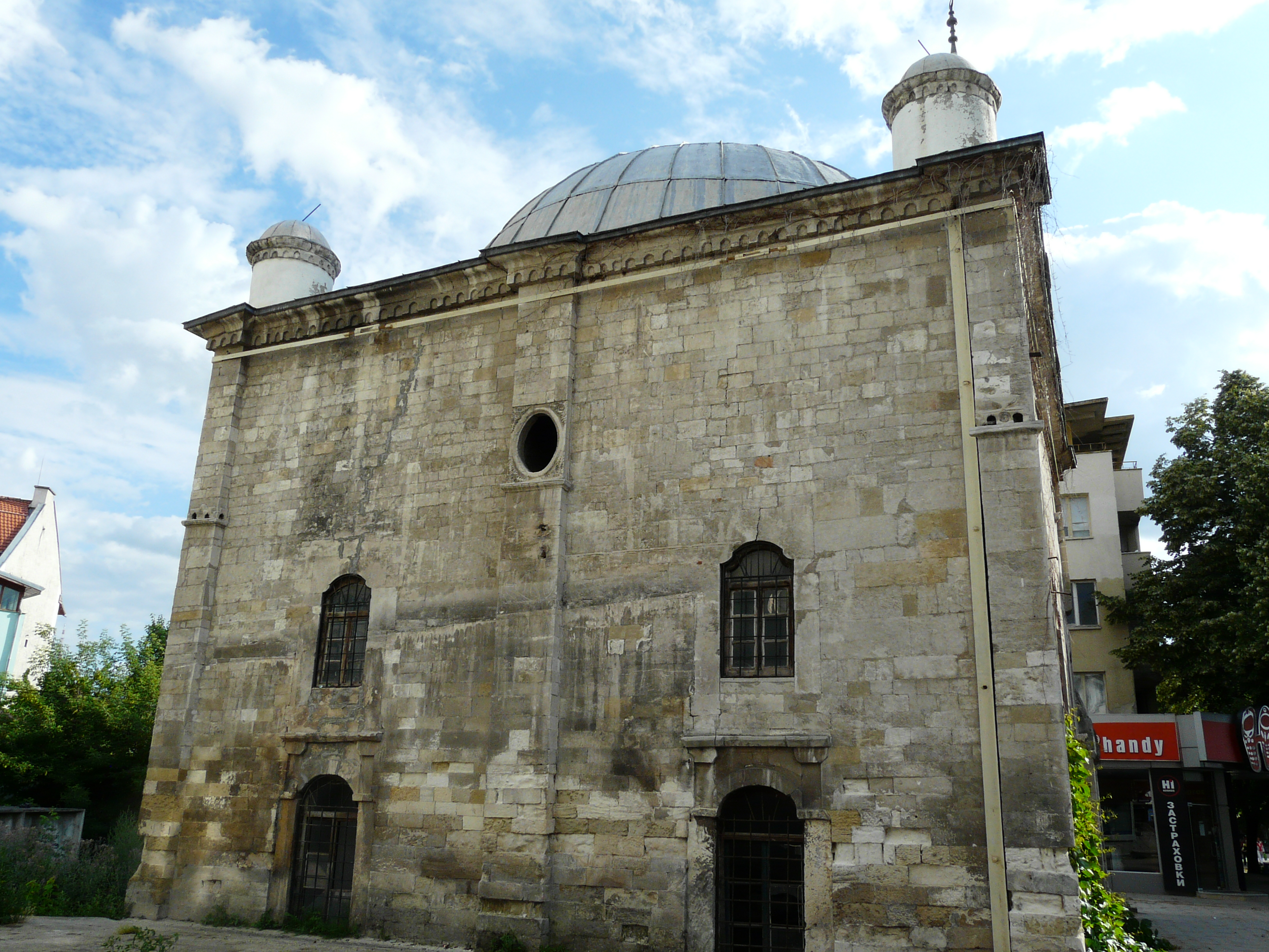 Silistra mosque facade, 2011